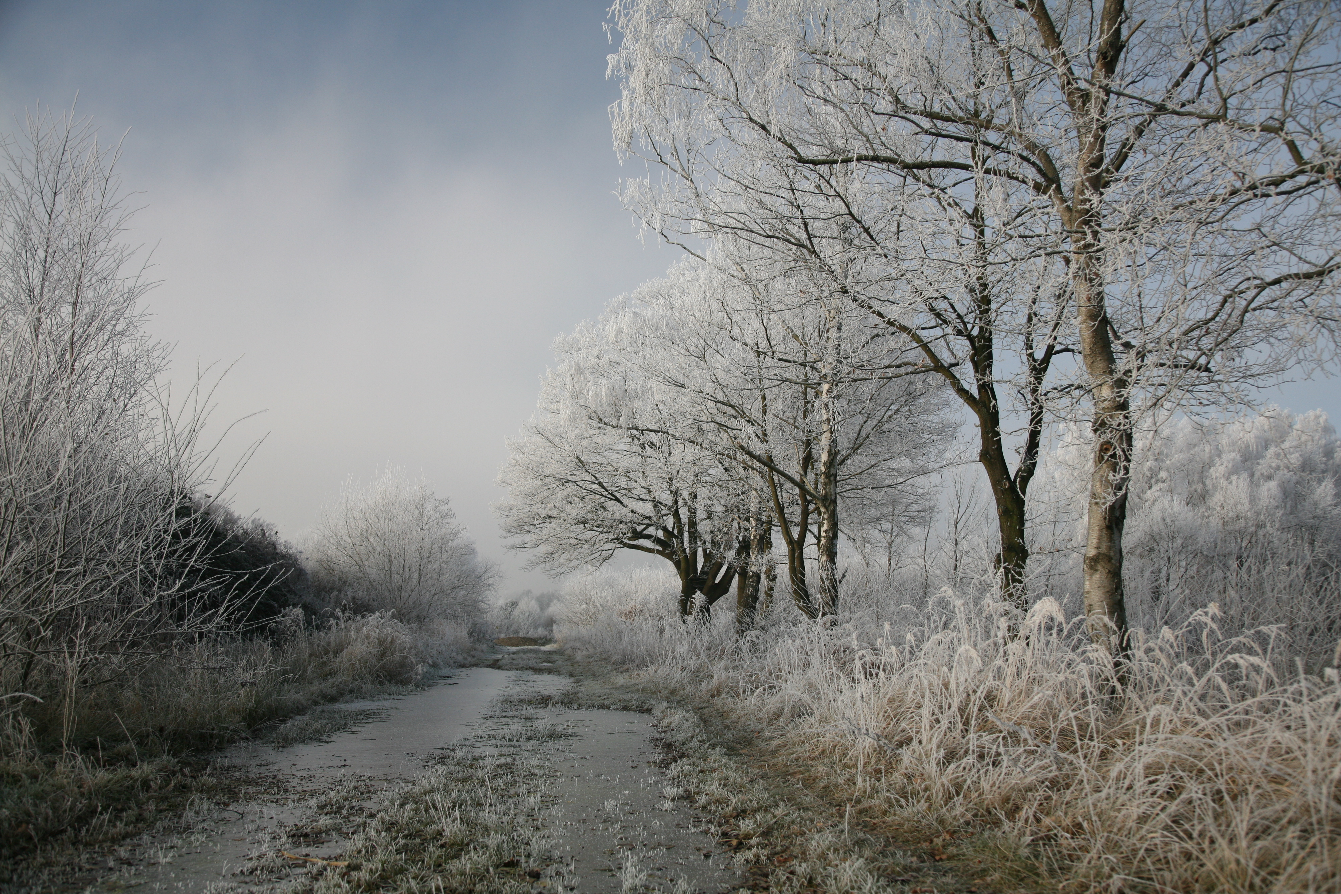 Hoar frost or soft rime on a cold winter day in Lower Saxony, Germany.